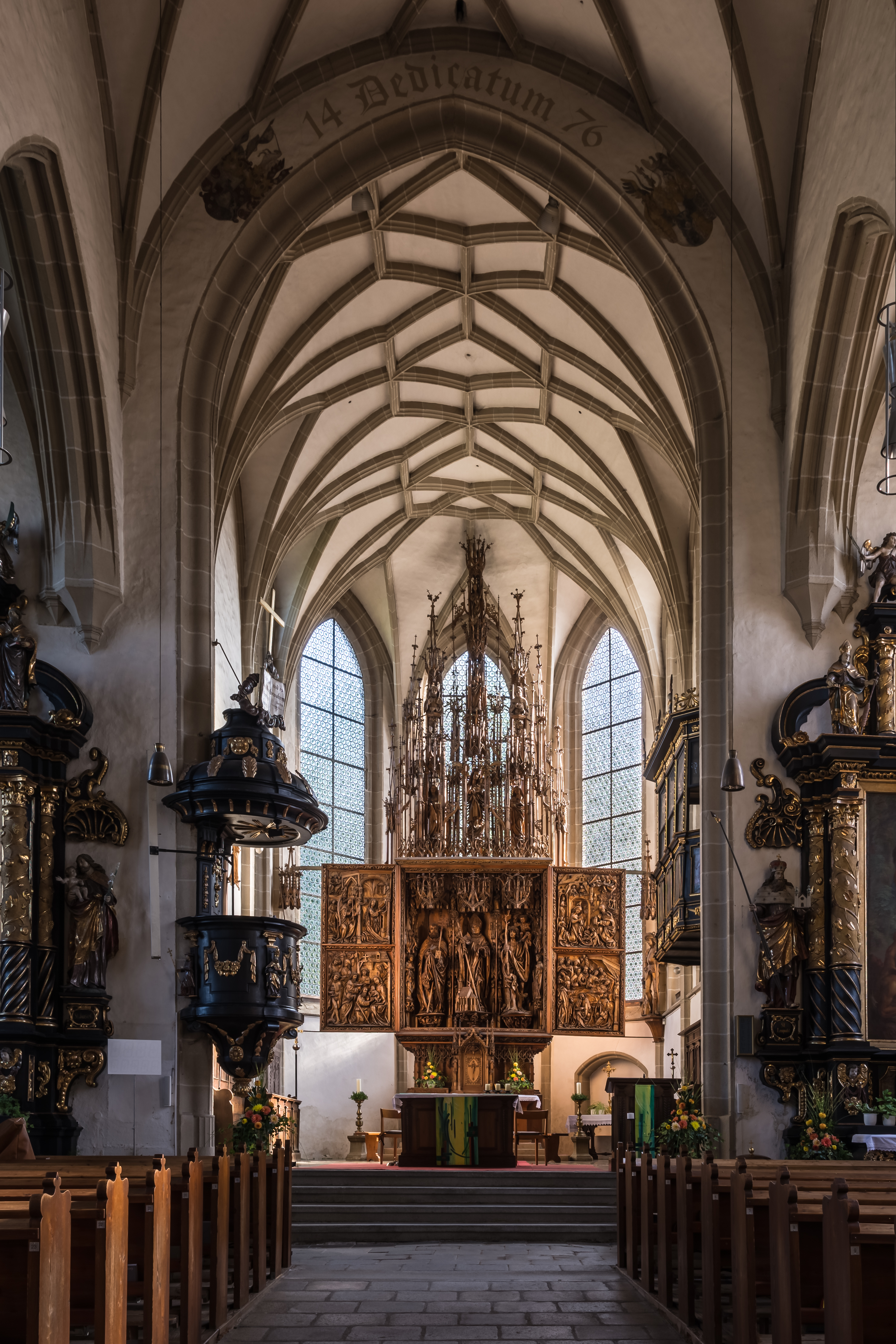 Interior of the parish- and pilgrimage church Kefermarkt, Upper Austria